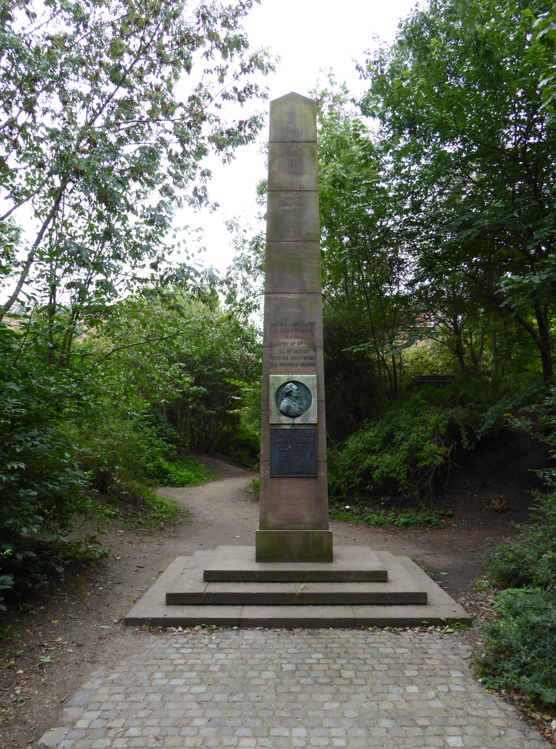 The park Classens Have in Østerbro in Copenhagen. Monument of the Major General Johan Frederik Classen (1725 - 1792) who founded the charitable foundation Det Classenske Fideicommis.